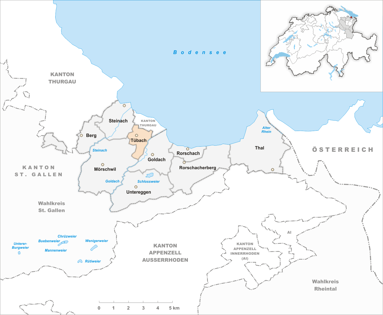 Municipality Tübach